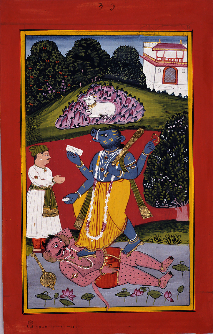 3 Viṣṇu as his third avatar (incarnation) as Varaha. Jaipur